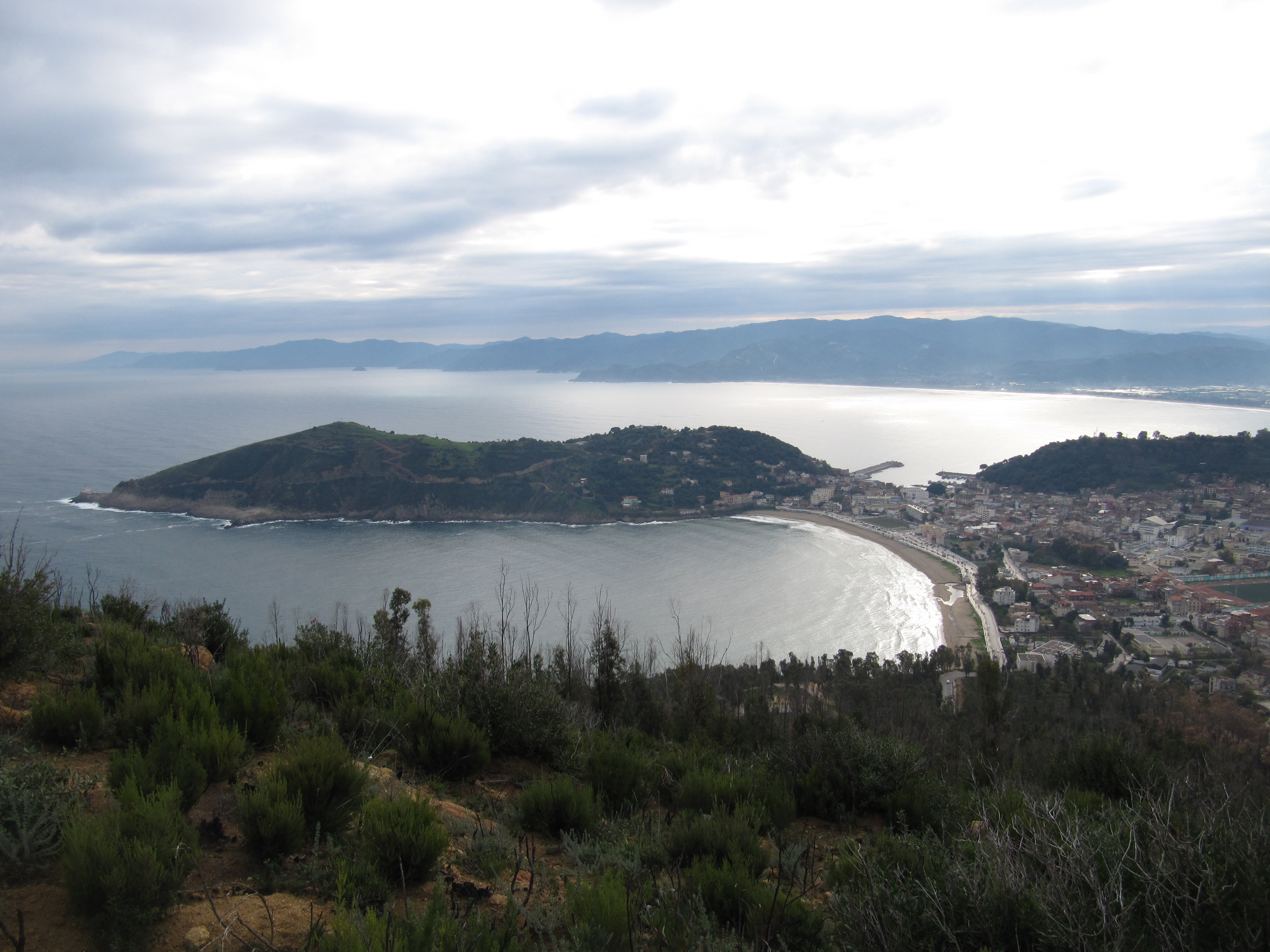 distant view of collo